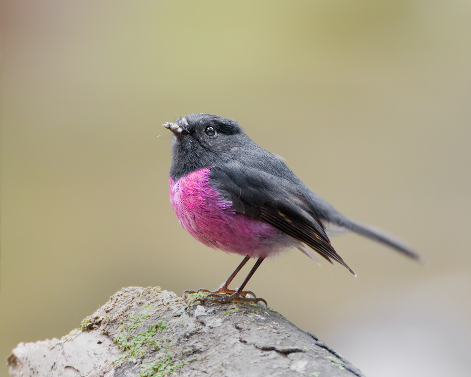 Pink Robin (Petroica rodinogaster), Mount Field National Park, Tasmania, Australia